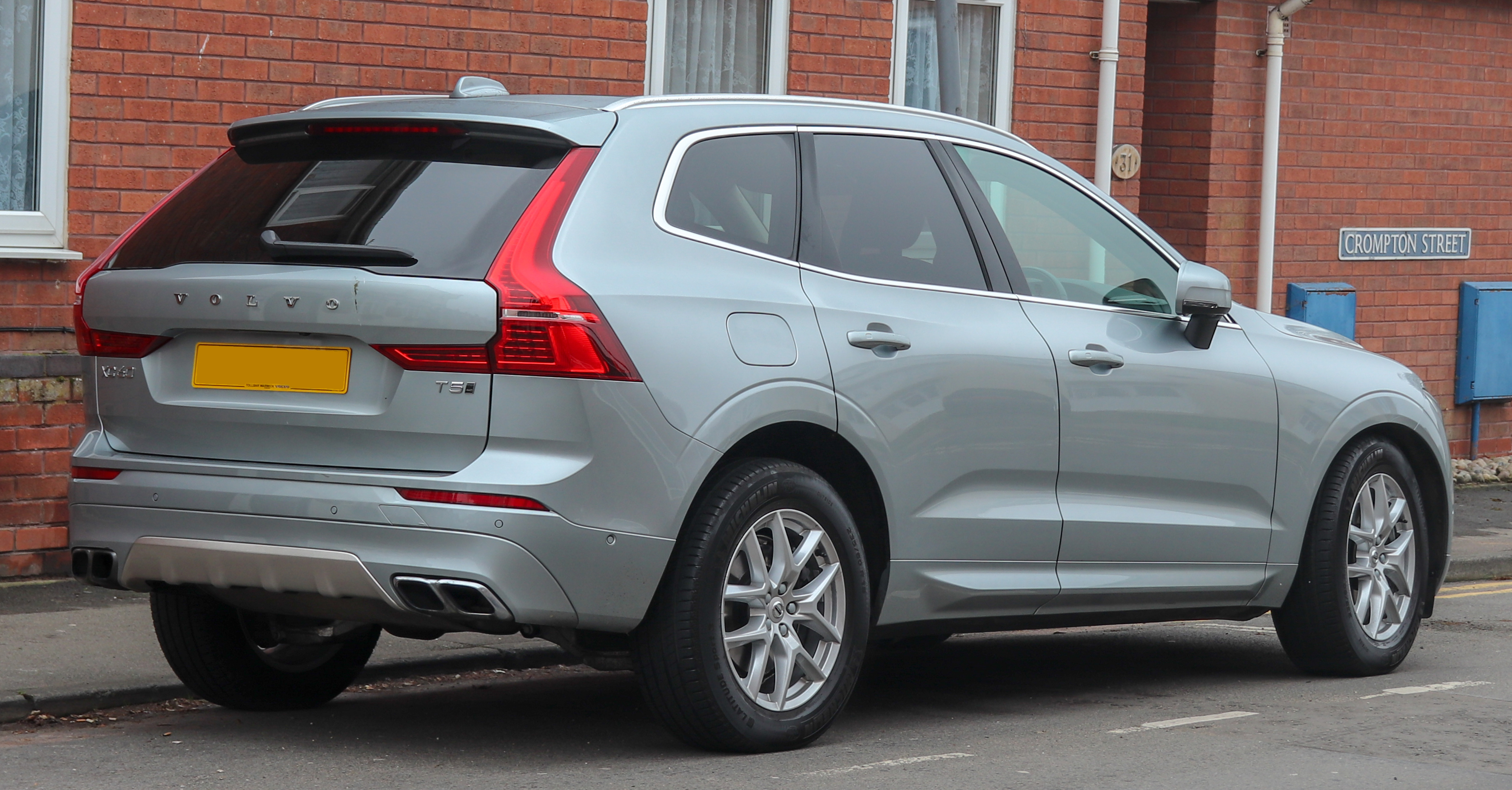 2017 Volvo XC60 Momentum T5 AWD Automatic 2.0 Rear Taken in Warwick